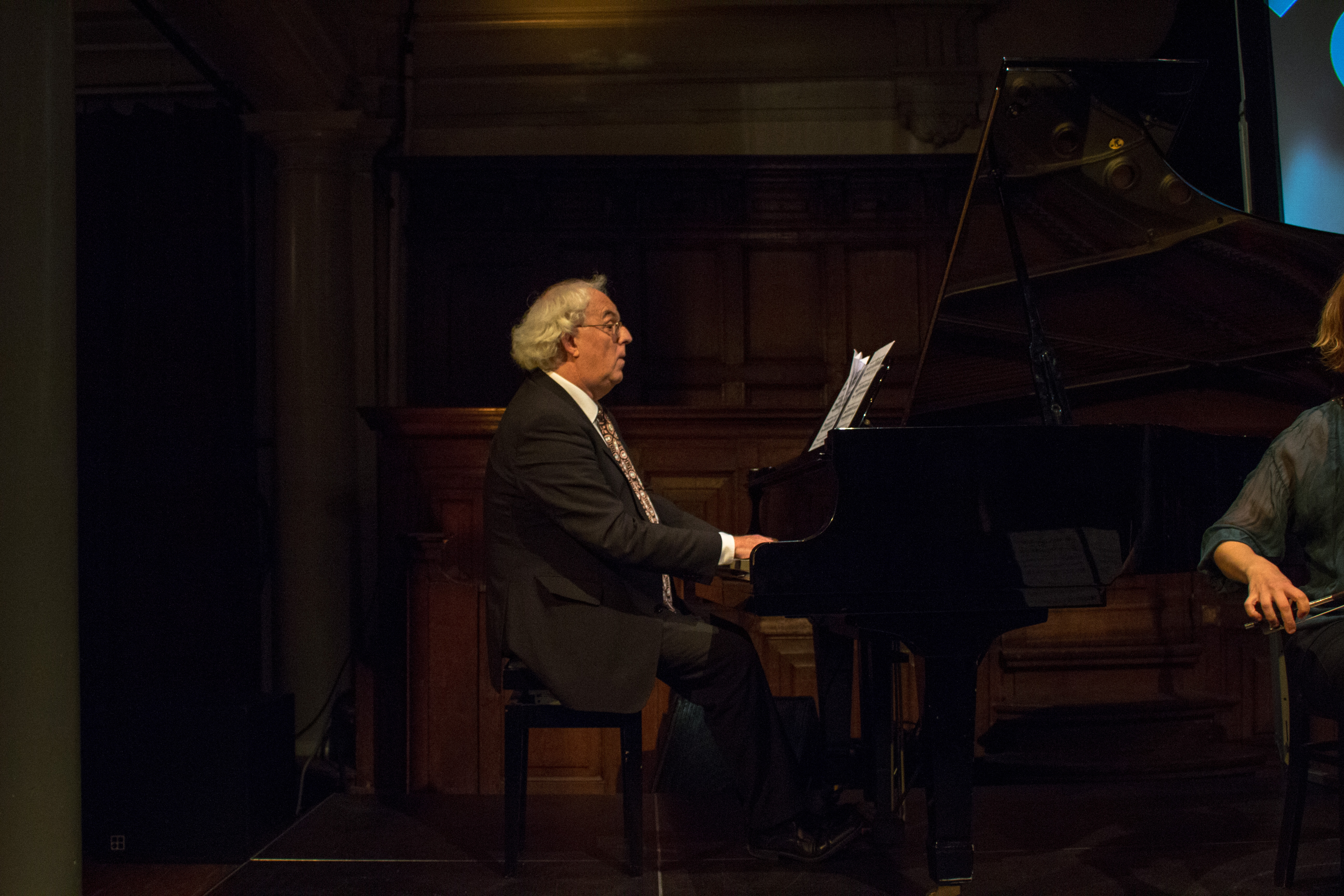 Frans van Ruth at the fundraising party for the second volume of the book "1001 vrouwen"